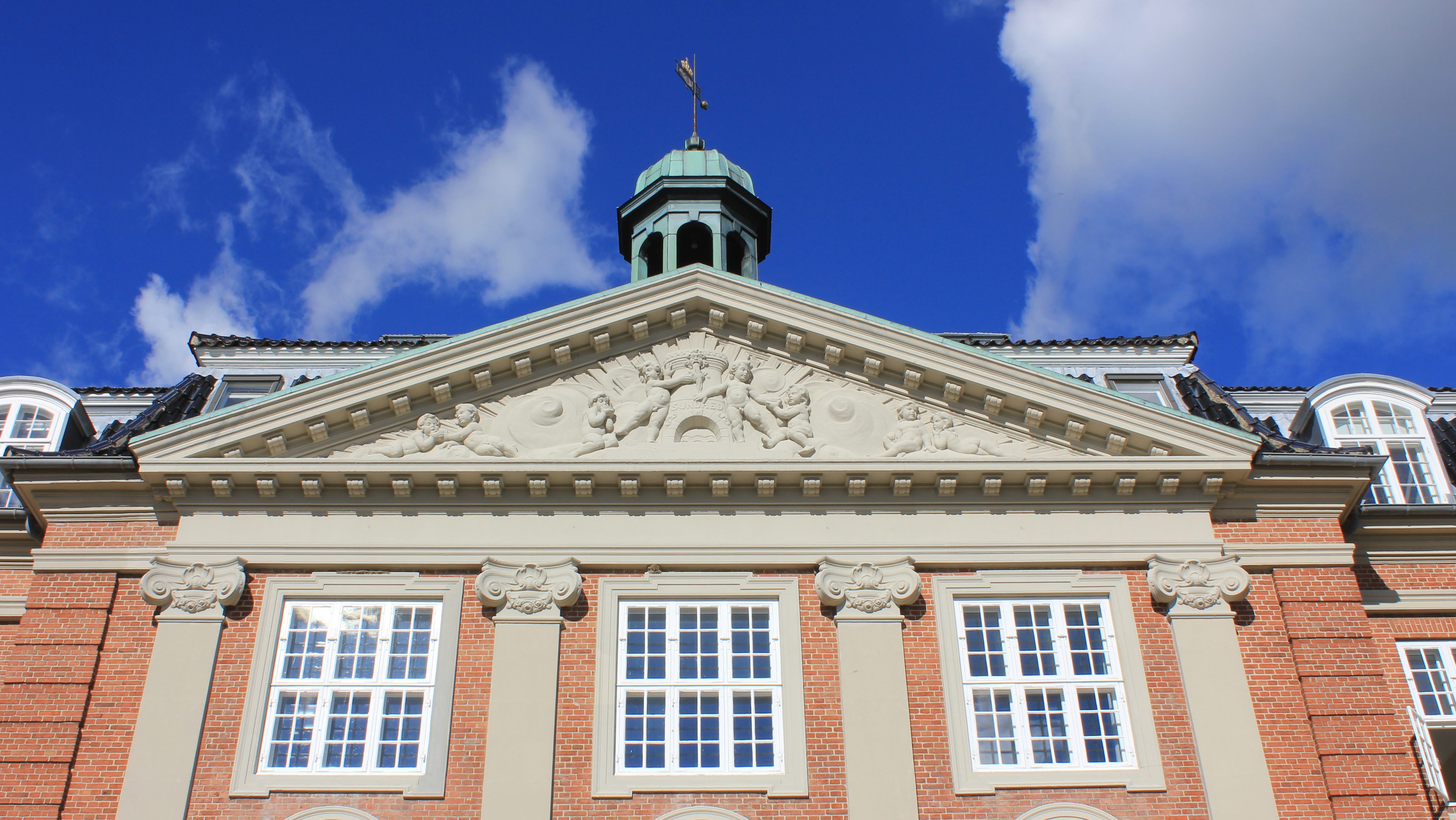 Hotel Kolding is a hotel and conference center, located on the north side of Kolding Fjord in Kolding, Denmark. It was originally built as a sanatorium in the early 1900s, but was later sold and the new owners renovated the buildings and made a hotel that was opened in 1990.